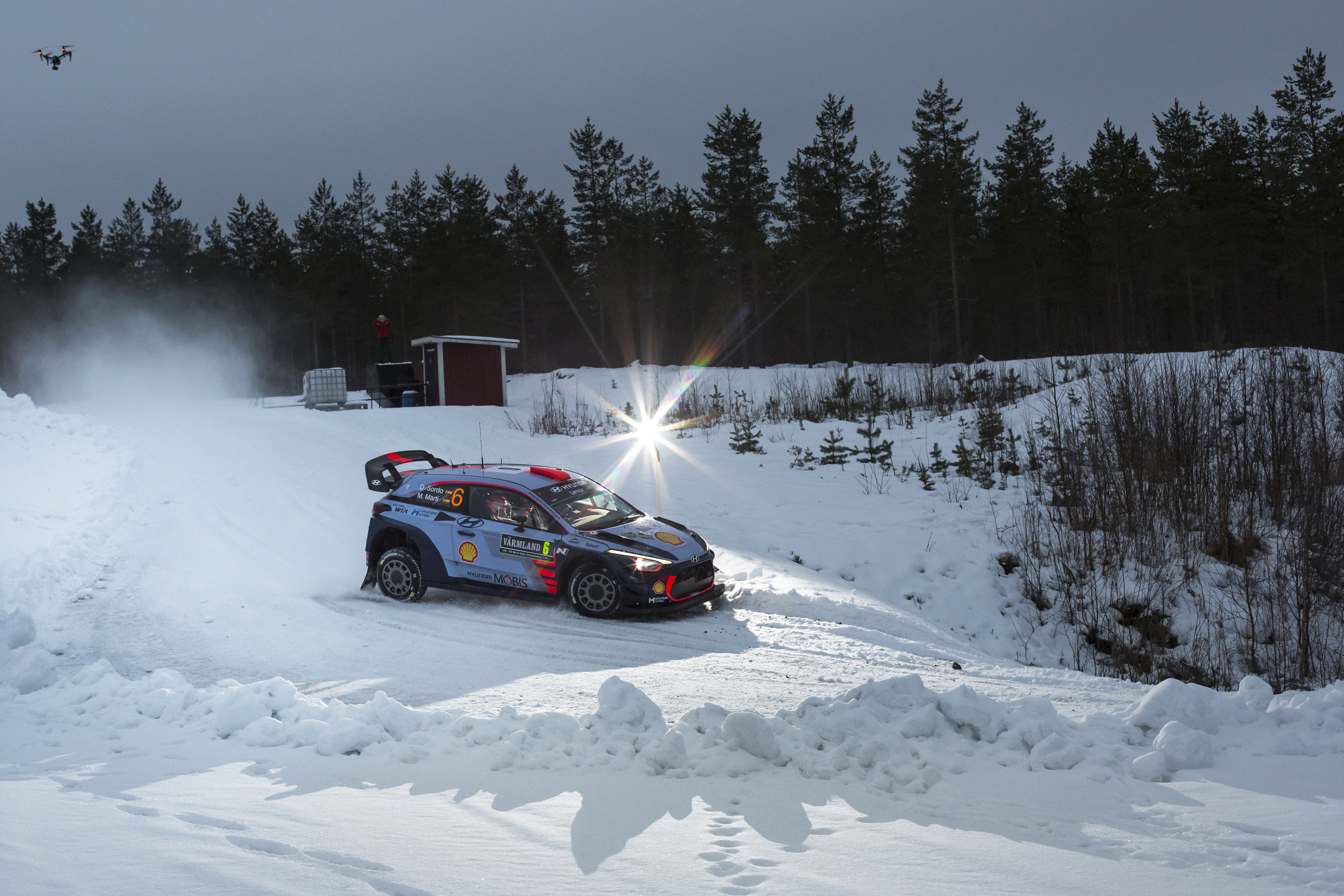 2017 FIA World Rally Championship Round 02, WRC, Sweden 06-12 February 2017 Dani Sordo, Marc Marti, Hyundai i20 Coupe WRC Dani Sordo, Marc Martí, Hyundai i20 Coupe WRC Action Day 3 Photographer: Helena El Mokni Worldwide copyright: Hyundai Motorsport GmbH